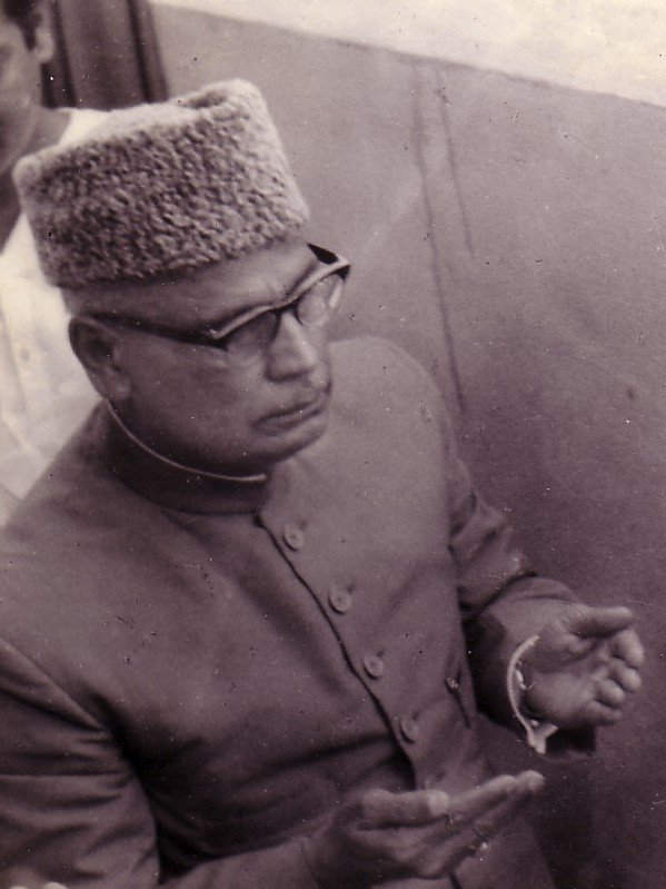 Abdul Monem Khan laying the foundation stone of Jhenaidah Cadet College in 1963